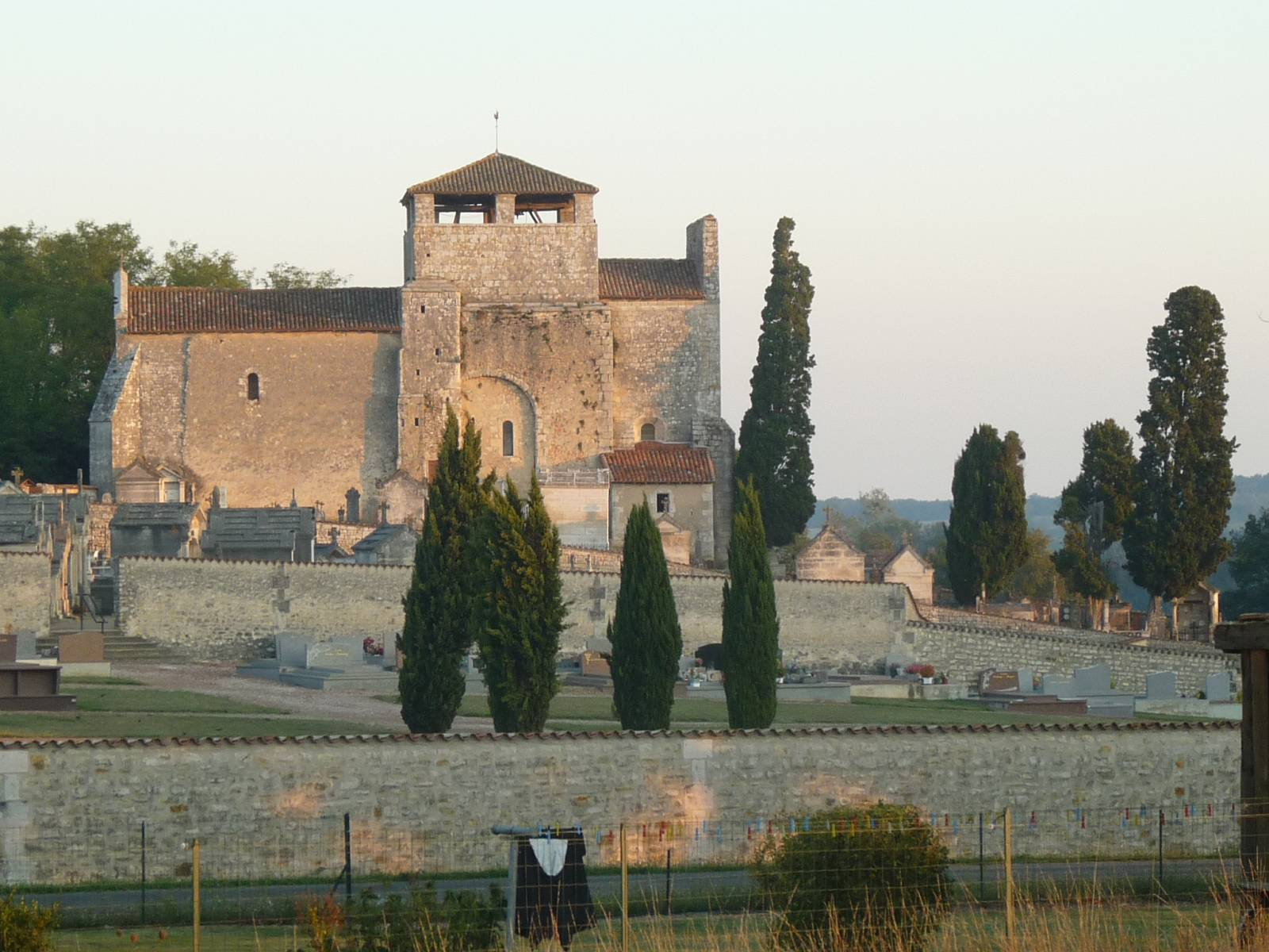 church of Rivières, Charente, SW France